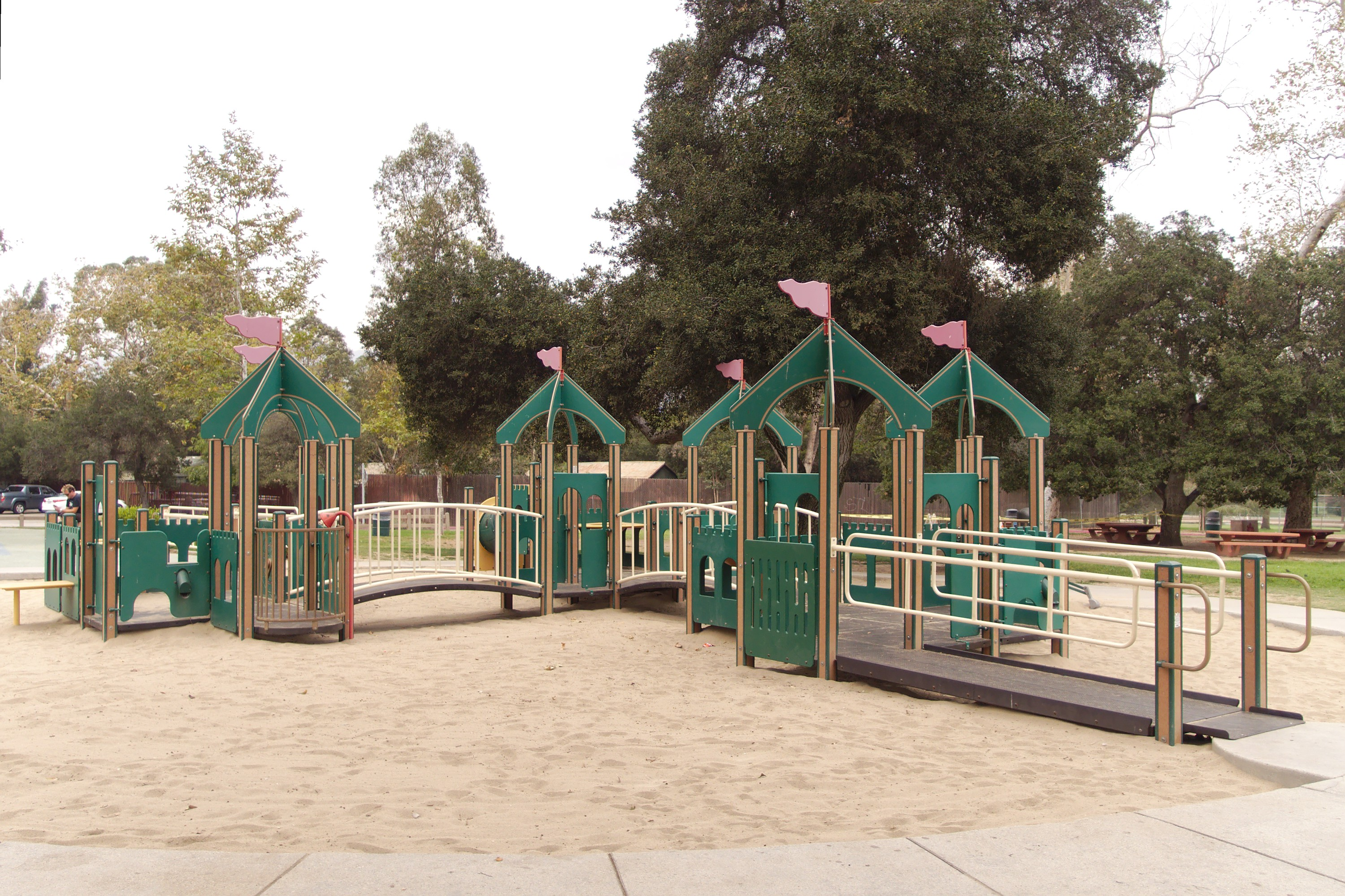 Castle-themed playground equipment at Shane's Inspiration, Griffith Park.